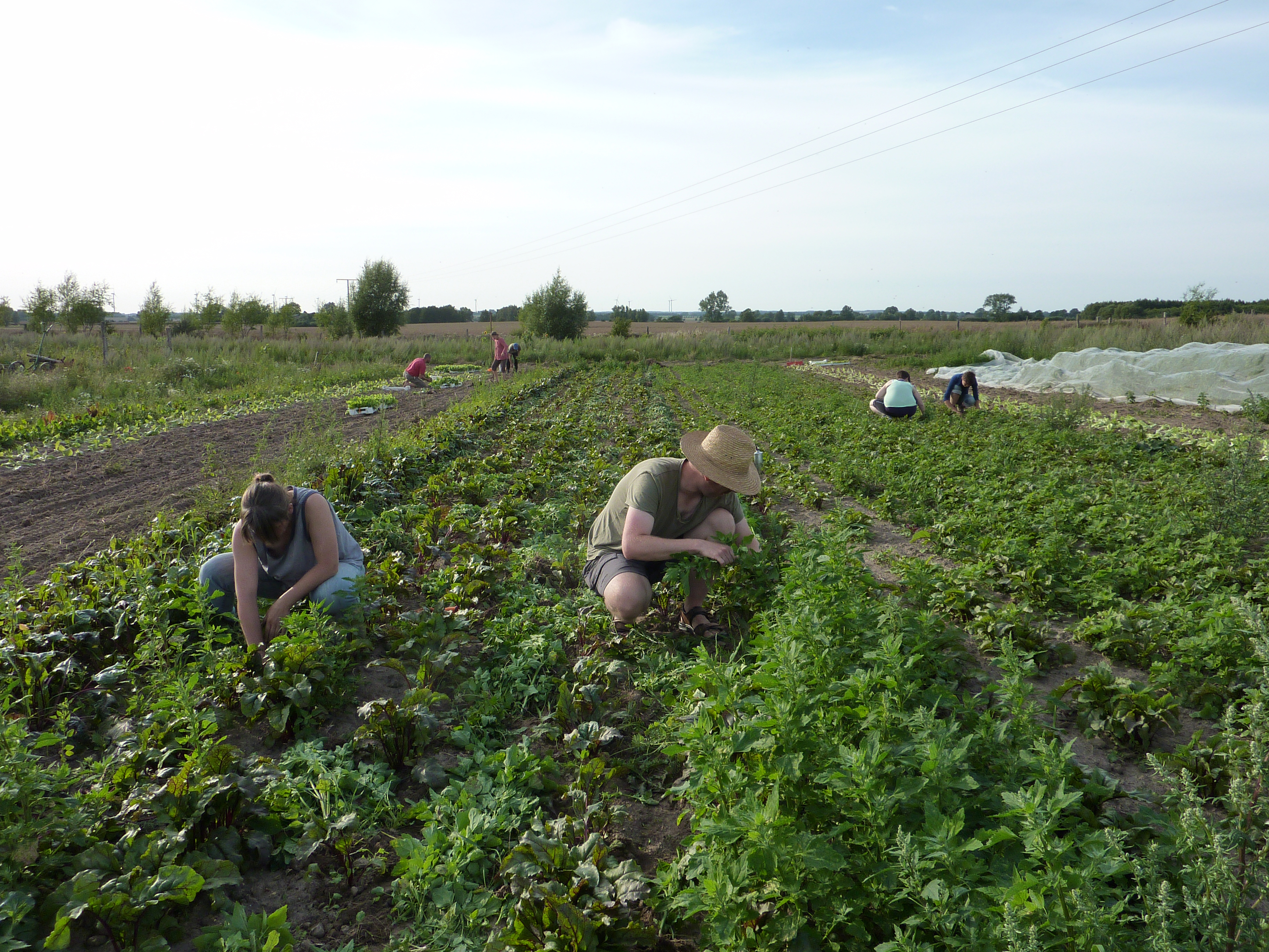 Members of an organic community supported agriculture farm near Rostock, Germany, support the farmer by plugging weeds from the beet root field.